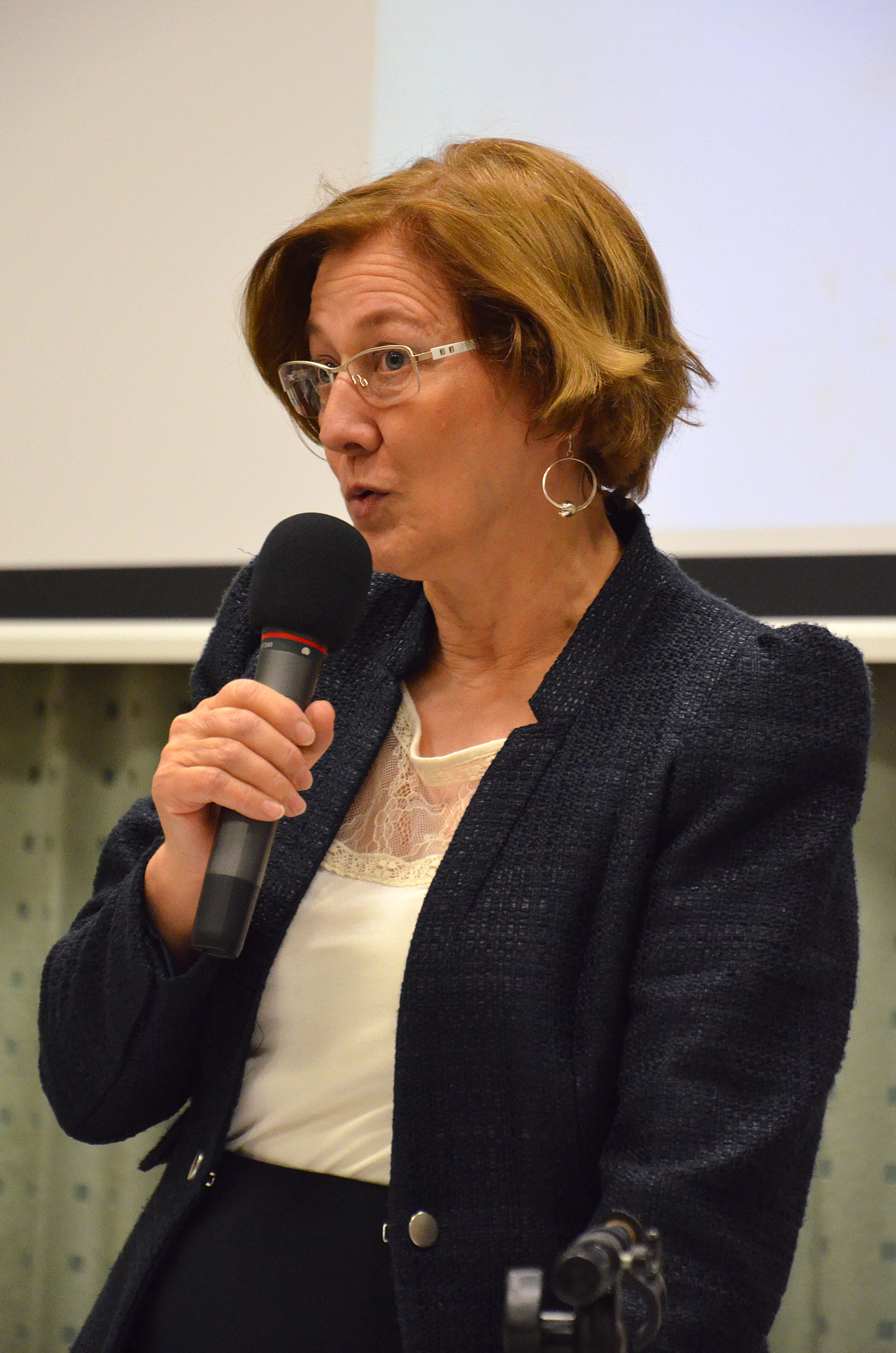 Ágnes Fülöp, director-general of Hungarian Central Statistical Office Library at a book release event in Budapest, Hungarian Central Statistical Office, Portraits from the history of Hungarian statistics and demography